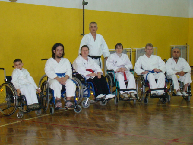 Karate club "Hvidra Osijek"